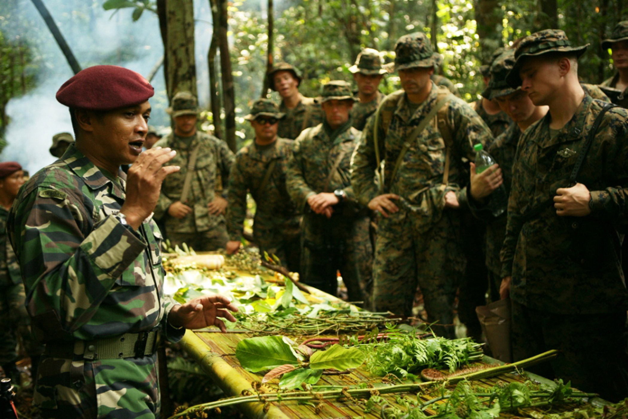 JERAM SISIK, Malaysia (June 24, 2009) Malaysian Army Maj. Norul Hisyam, deputy commander of the 8th Royal Ranger Regiment, shows the distinctions between edible and poisonous plants to Marines from 1st Battalion, 24th Marine Regiment, as part of a jungle survival course during Cooperation Afloat Readiness and Training (CARAT) Malaysia 2009. CARAT is an annual series of bilateral maritime training exercises between the United States and six Southeast Asia nations designed to enhance the operational readiness of the participating forces. (U.S. Marine Corps photo by Lance Cpl. Tyler J. Hlavac/Released)